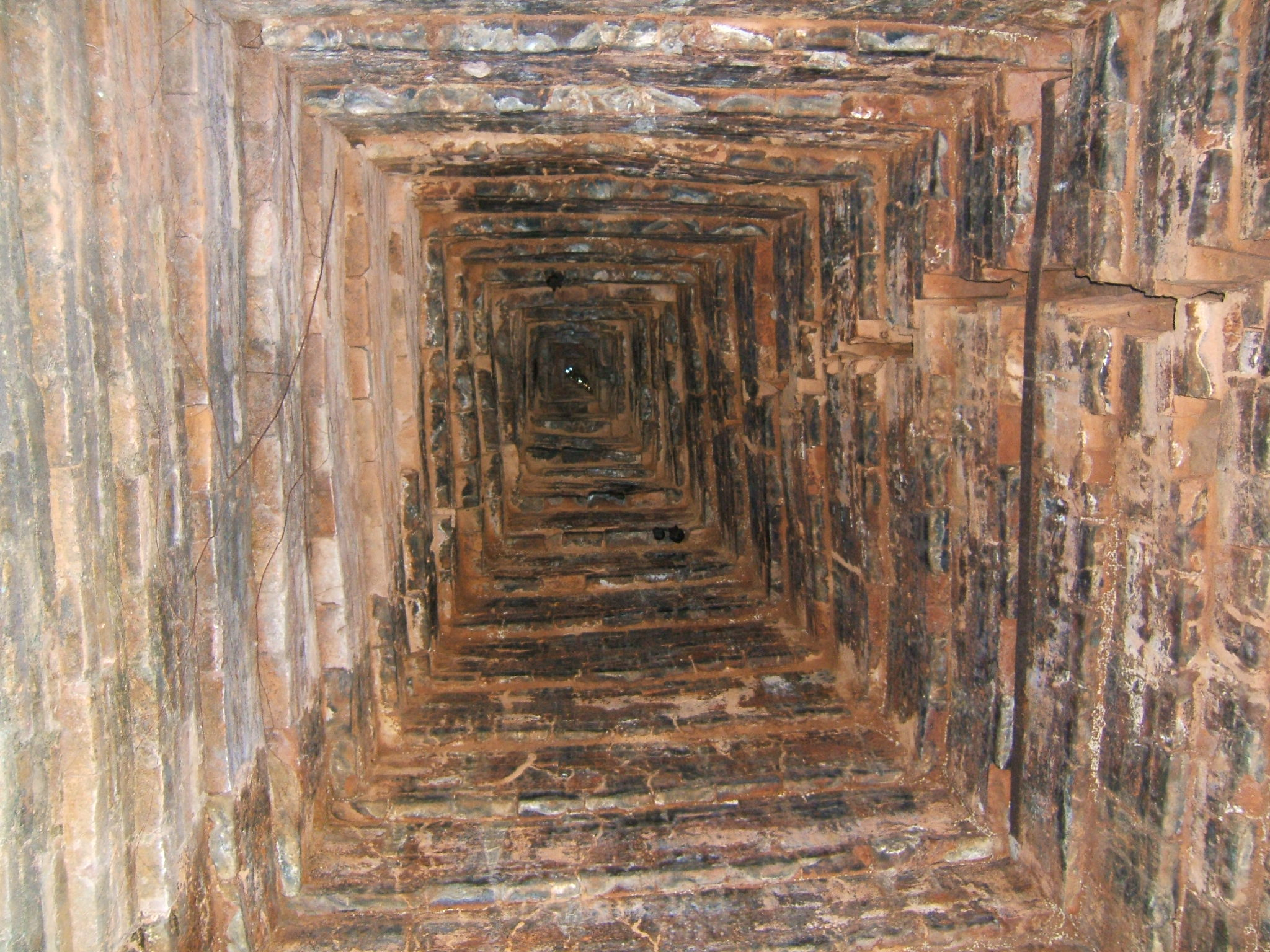 A My Son tower seen from its inside